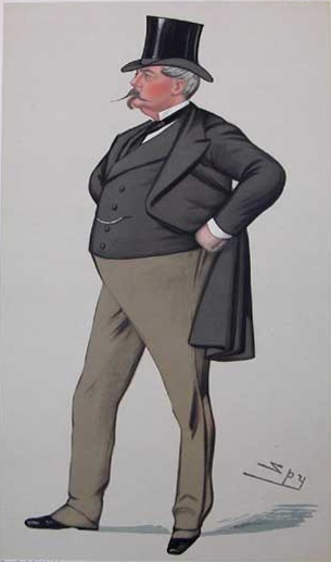 Caricature of Arthur Loftus Tottenham MP. Caption read "Lofty".